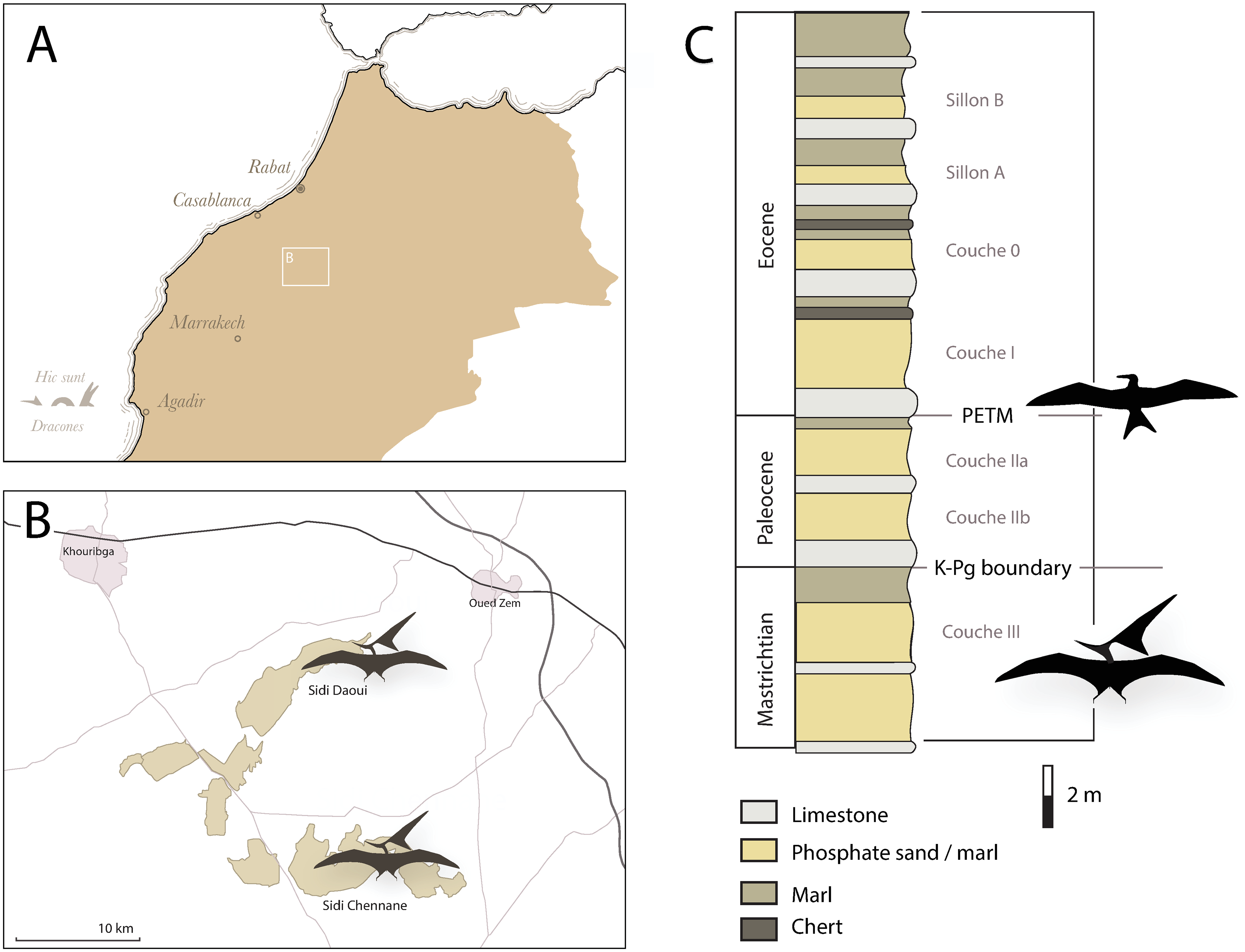 A) Map showing the location of the phosphate mines in Morocco, (B) map showing Sidi Daoui and Sidi Chennane mines, and (C) stratigraphic column for the phosphates of the Sidi Daoui area (after [40]). Abbreviations: PETM, Paleocene-Eocene Thermal Maximum.